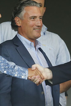 Kiril Domuschiev - Bulgarian businessman and entrepreneur who is the chairman of the governing council of the Confederation of Employers and Industrialists. He is also the owner of Ludogorets Razgrad.